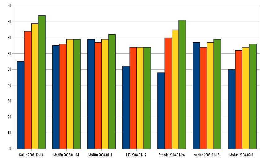 Forecasts by polling and market research companies for the 2008 Hungarian referendum Forecasted participation Abolishment the tuition fee (YES) % Abolishment the consultation fee (YES) % Abolishment the hospital fee (YES) % Original source: 1. column: Gallup Hungary homepage 2. column: Medián homepage 3. column: Medián homepage 4. column: Index.hu 5. column: Privátbankár 6. column: Medián homepage 7. column: MMedián homepage